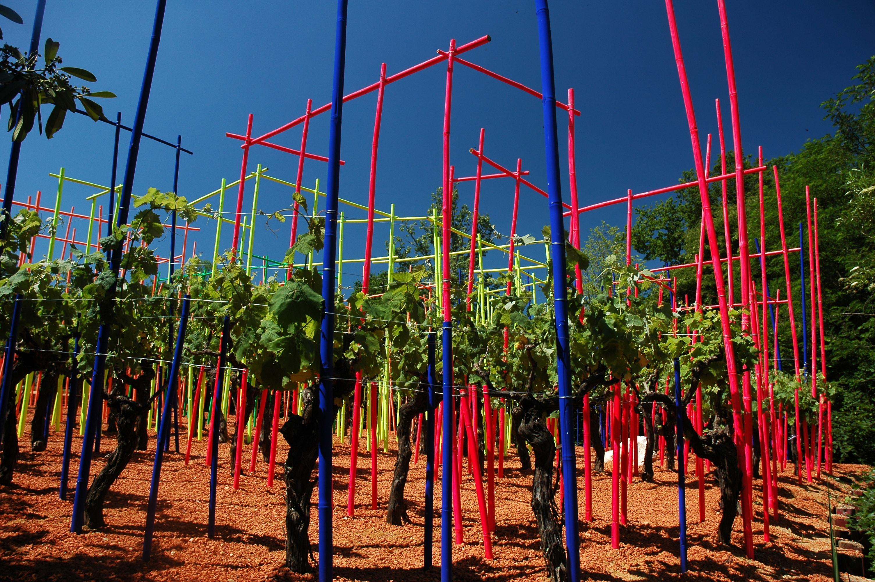 Chaumont-sur-Loire, international garden festival 2010, Labyrinthe de la mémoire, Anne and Patrick POIRIER